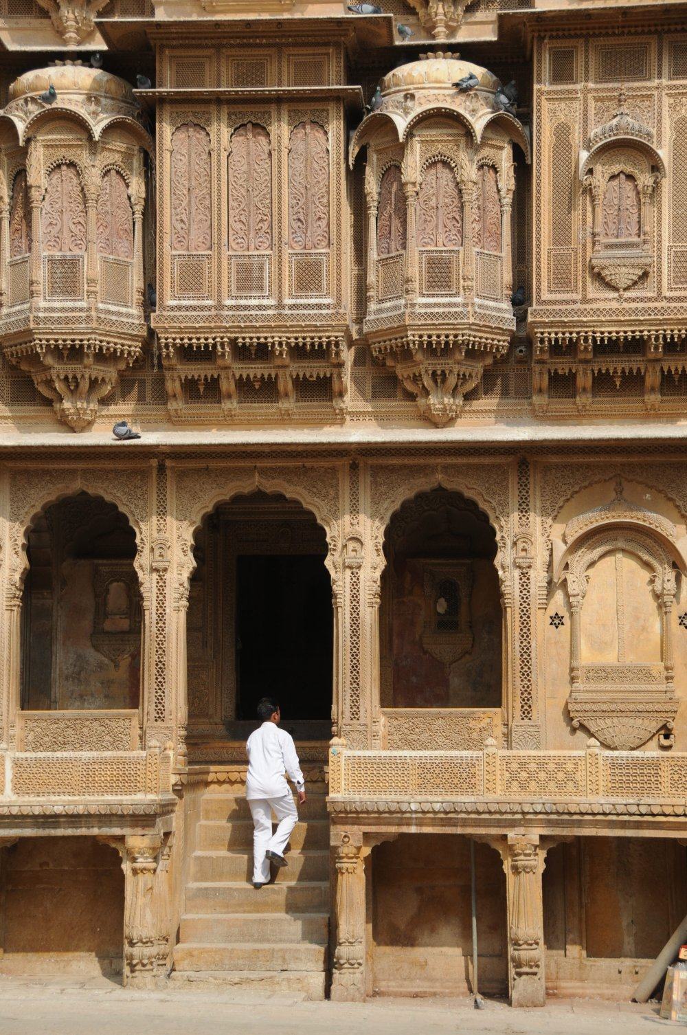 Nobles house, Jaisalmer, Rajasthan, India